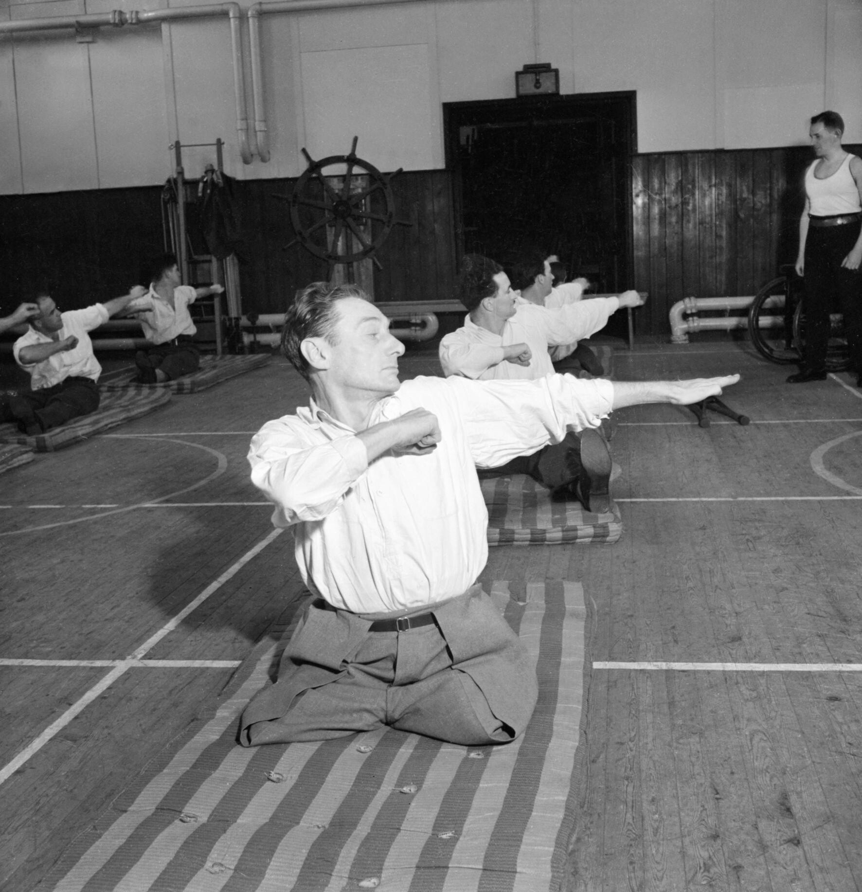 Rehabilitation- the work of Queen Mary's Hospital, Roehampton, London, England, UK, 1944 Patients at Queen Mary's Hospital, Roehampton who have lost limbs, take part in a physical training session, led by Sergeant Major Allen. They are stretching out their arms and twisting at the waist. These exercises are designed to strengthen the patients' muscles before they are fitted with artificial legs.